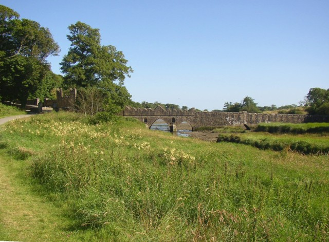 Tintern Abbey Bridge, Co. Wexford. This 18C bridge crosses the river to the south of the abbey, carrying a lane that leads from the site of Tintern village to a ruined church.